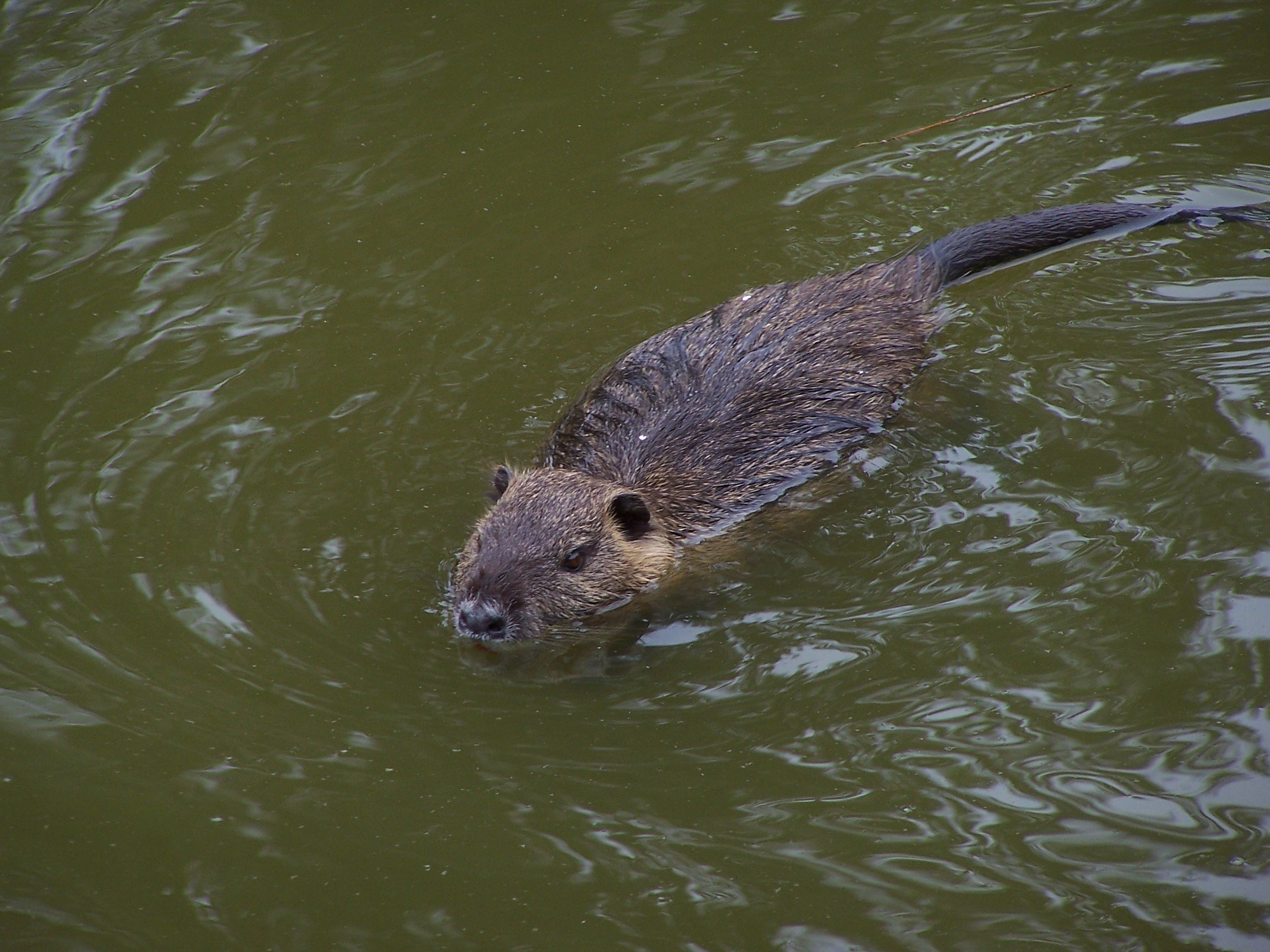 Photograph of a coypu taken in France (Cher) on (in?) a pond. It seems to prepare itself to submerge. It was emitting a bizarre wheezing sound and seemed to seek to impress me, suggesting (though I am by no means an expert) that it could be a she-coypu protecting its babies.